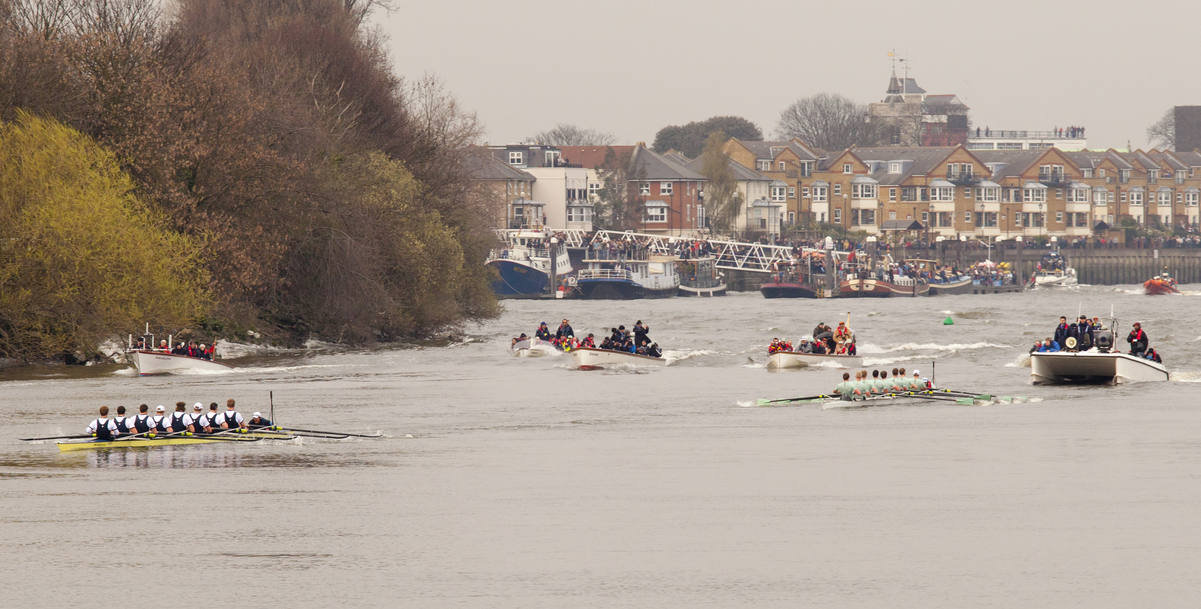 Oxford VIII in the lead at the crossing approaching the Bandstand in the 2011 Boat Race